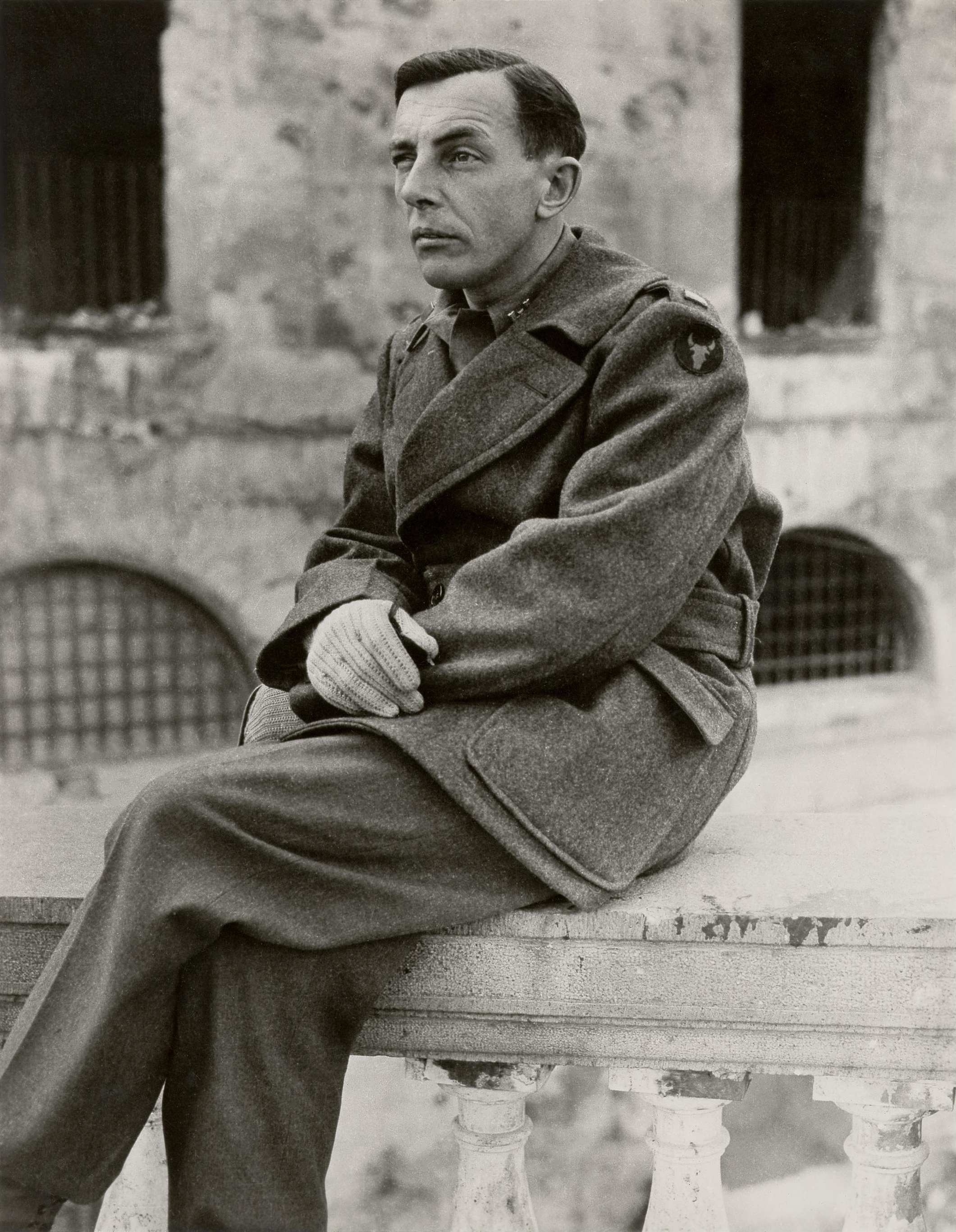 Artist and soldier Rudolph von Ripper, ca. 1942, during his time as a US Army war artist. Published in "The Army at War", 1943.